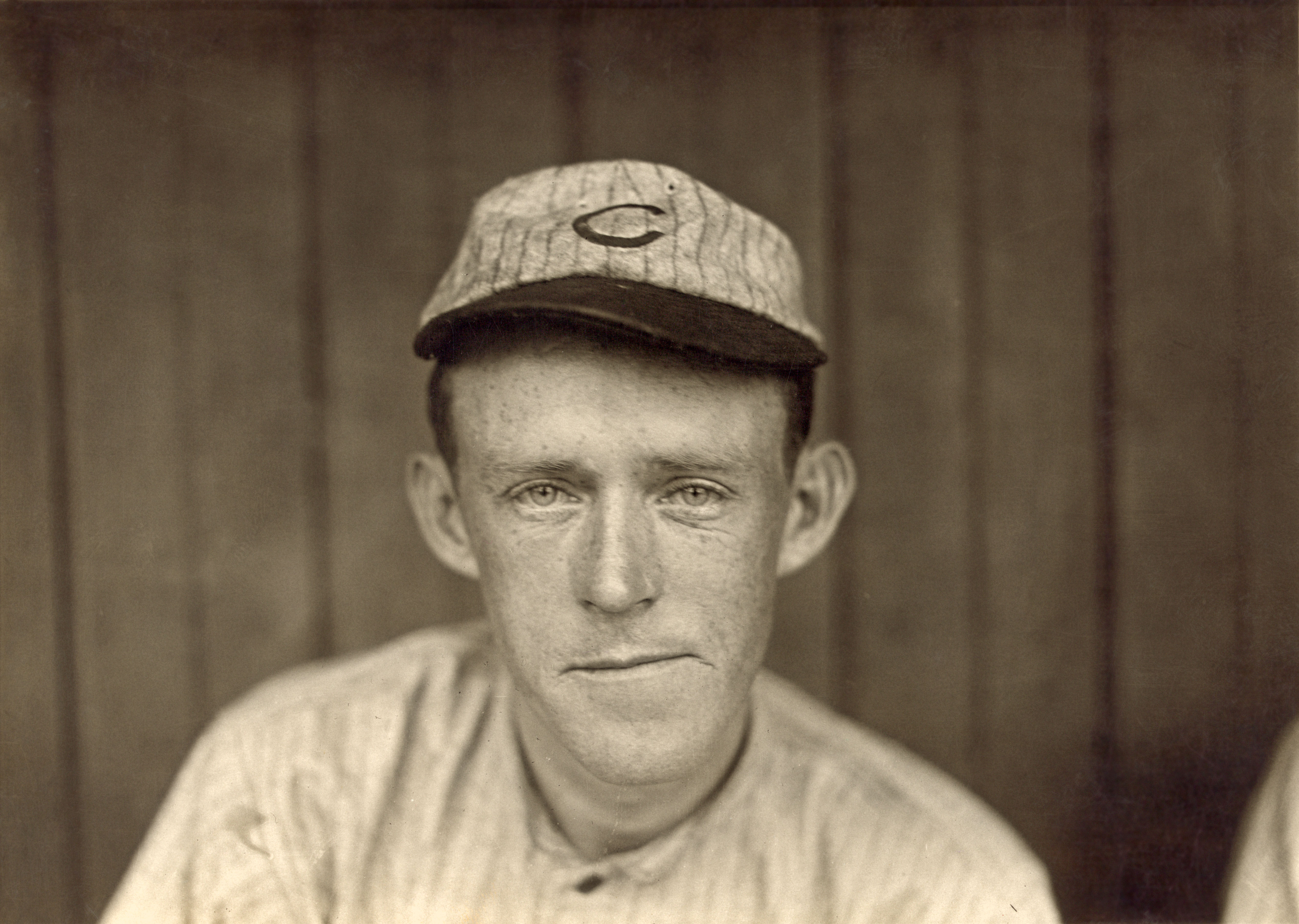 Johnny Evers with the Chicago Cubs, circa 1910.